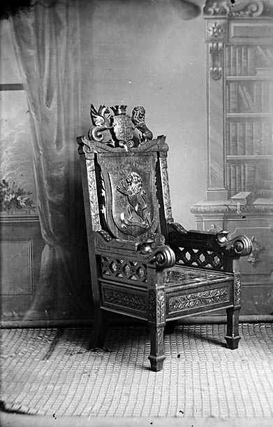 1 negative : glass, wet collodion, b&w ; 11 x 16.5 cm.